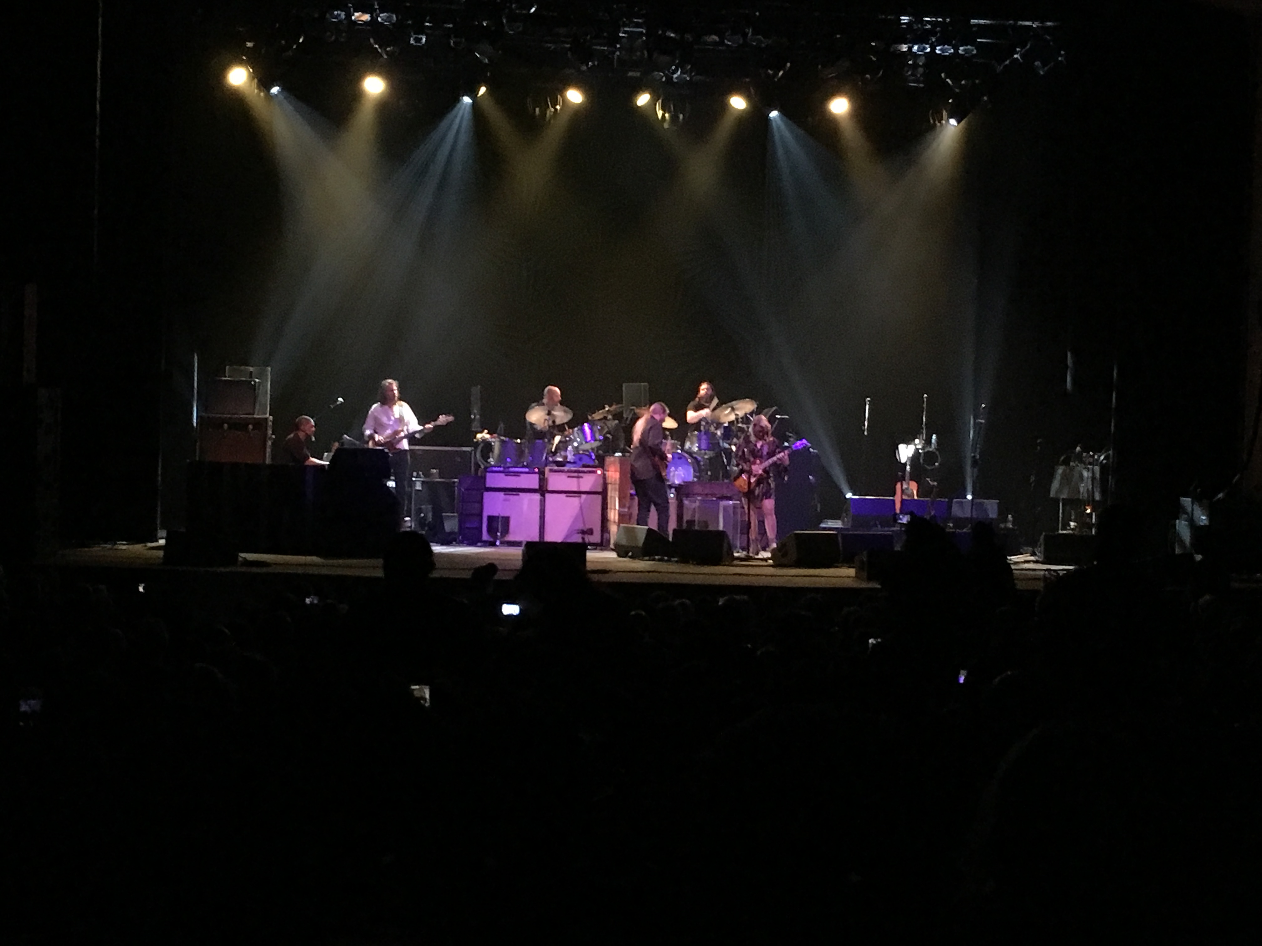 The Tedeschi Trucks Band on stage, performing "Statesboro Blues" at the Count Basie Theatre in Red Bank, New Jersey. The performance is a tribute by TTB co-leader Derek Trucks to his late uncle Butch Trucks, a founding member of The Allman Brothers Band, which Derek Trucks later joined, and to that group, as "Statesboro Blues" was a signature tune for them. Six of the Tedeschi Trucks Band have left the stage, leaving the same two drummers–bass–keyboards–two guitarists lineup as that of the original Allmans, and Trucks spends most of the song facing towards the same stage-left drum position that his uncle occupied. Trucks plays the Duane Allman guitar parts of the song while other co-leader Susan Tedeschi plays the Dickey Betts guitar parts.